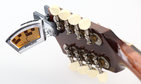 Peterson Tuners StroboClip, introduced 2010